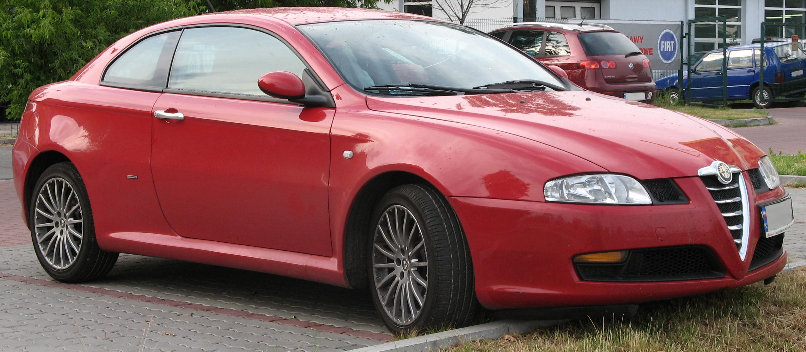 Alfa Romeo GT, red, photographed in Warsaw